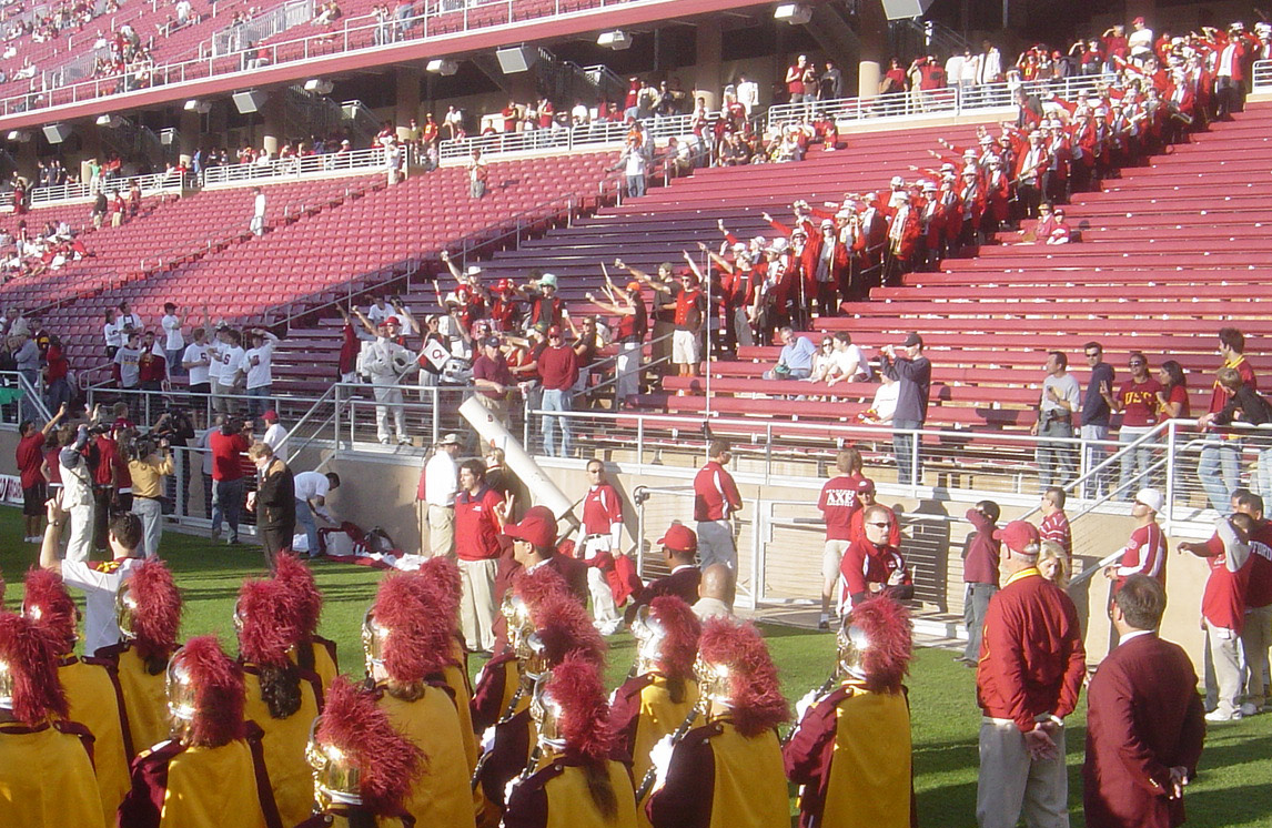 The Stanford Band doing the Nazi salute[1] to the fight song of the Spirit of Troy at Stanford Stadium.